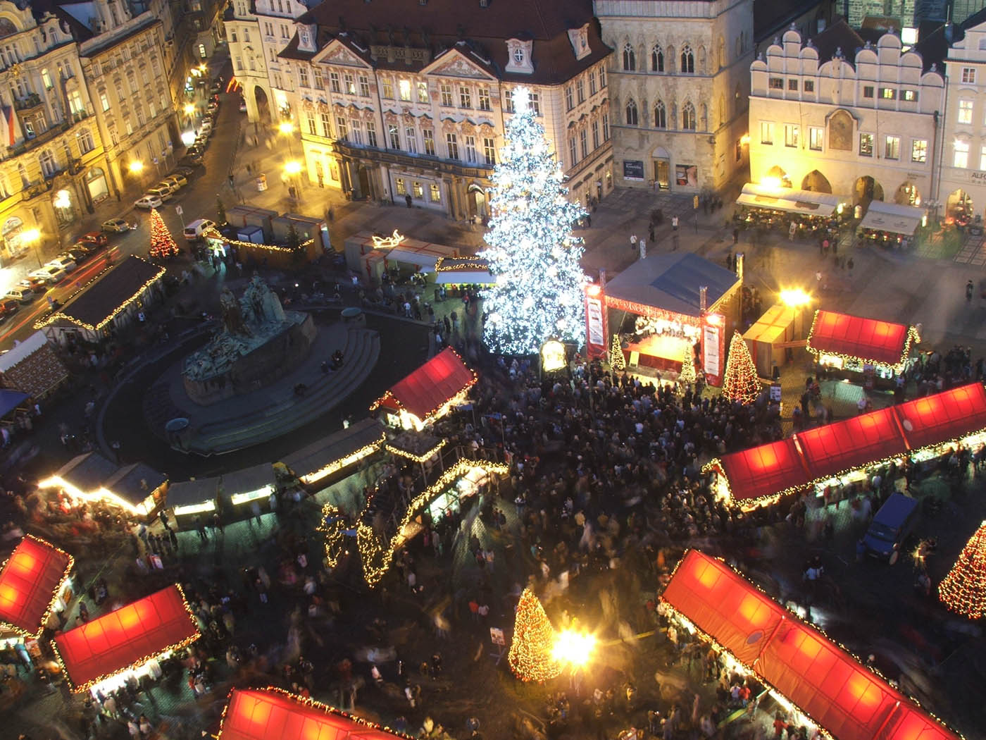 Christmas market on Old Town Square, Prague 2006